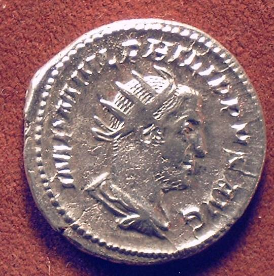 Antoninian of Phillipus Arabs Roman Emperor Phillipus Arabs